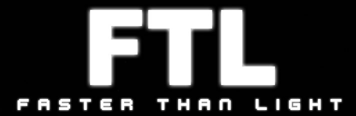 FTL Faster Than Light Logo